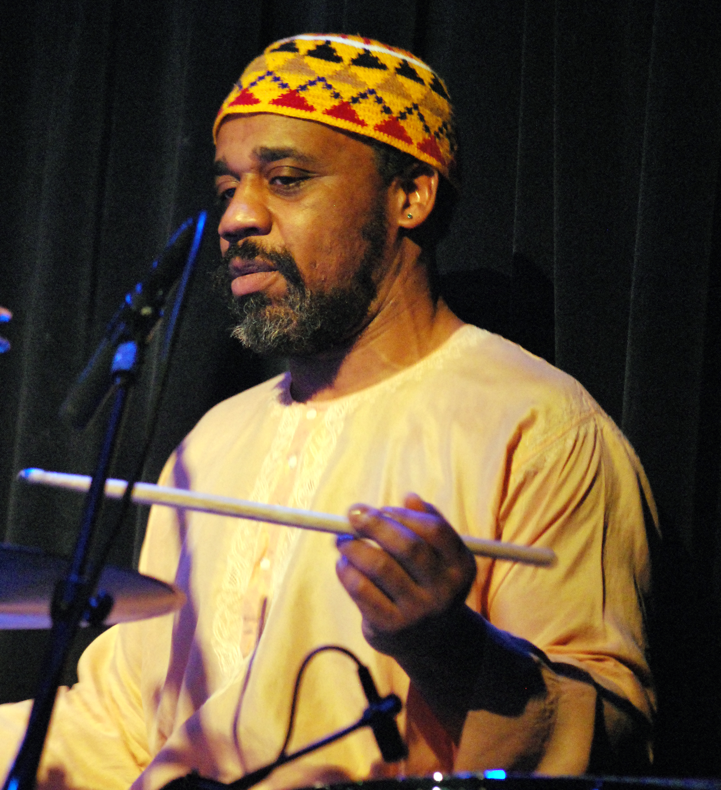 Pheeroan akLaff at a concert with Don Byron's new Gospel Quintet. Treibhaus Innsbruck, 2010